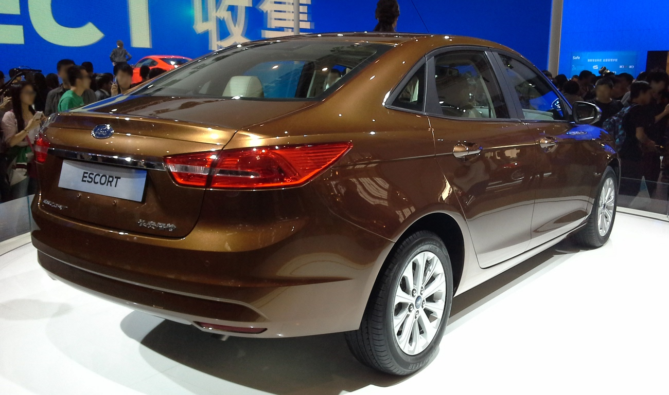 Ford Escort CN photographed at the Auto China 2014, Beijing, China.